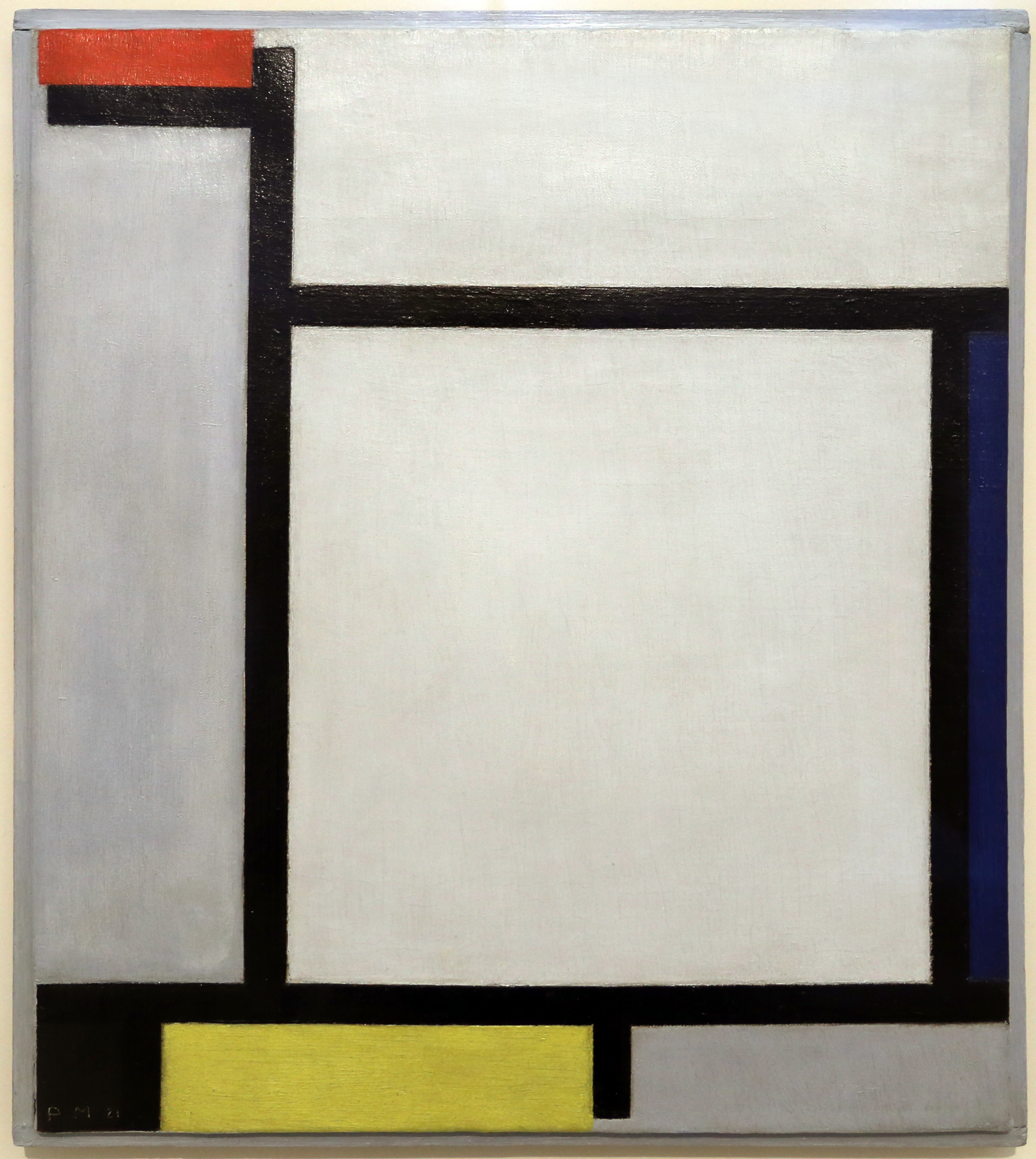 Paintings by Piet Mondriaan in the Gemeentemuseum Den Haag, or seen there during Exhibition in 2017